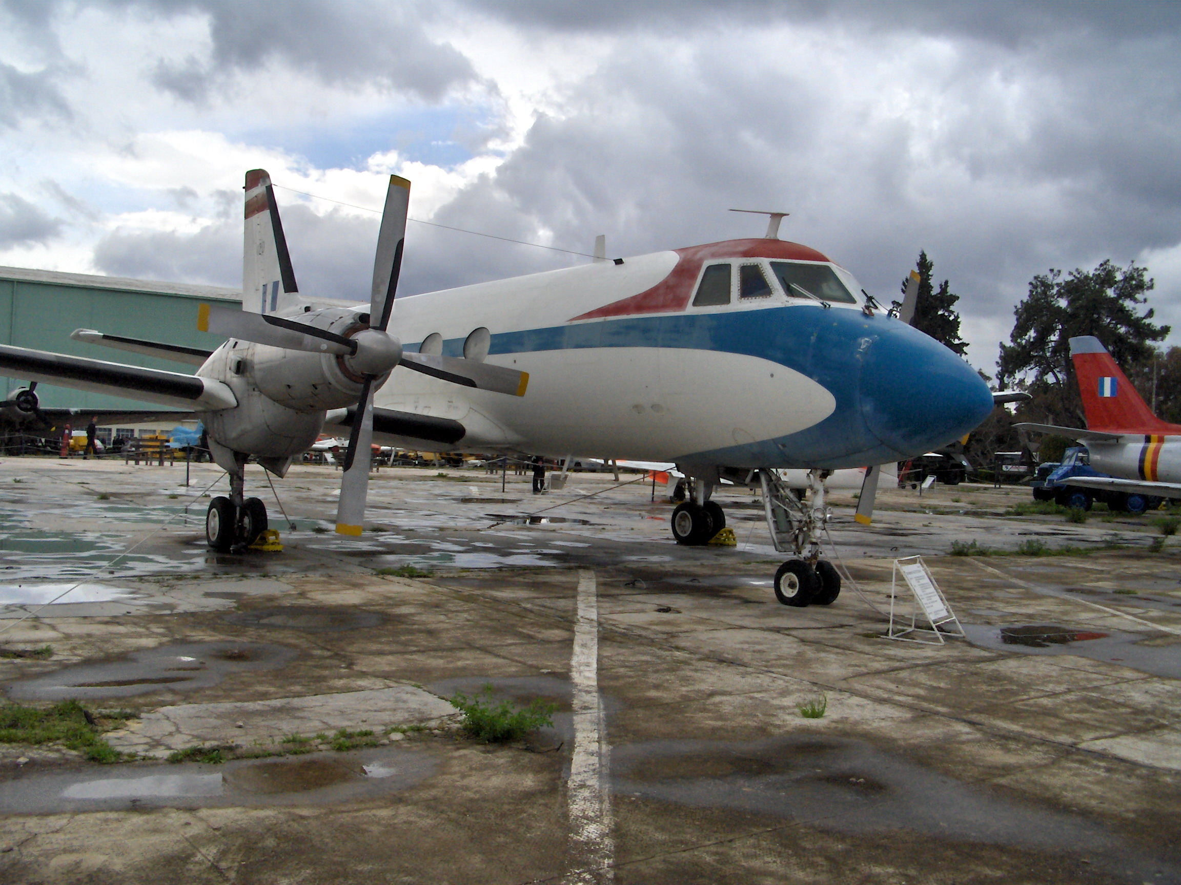 Exhibit at the Hellenic Air Force Museum at Dekelia (Tatoi), Athens, Greece. Grumman G.159 Gulfstream I